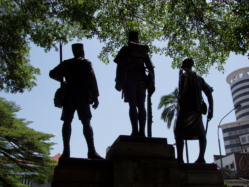 King's African Riffles World War II monument, at Kenyatta Avenue, Nairobi, Kenya.